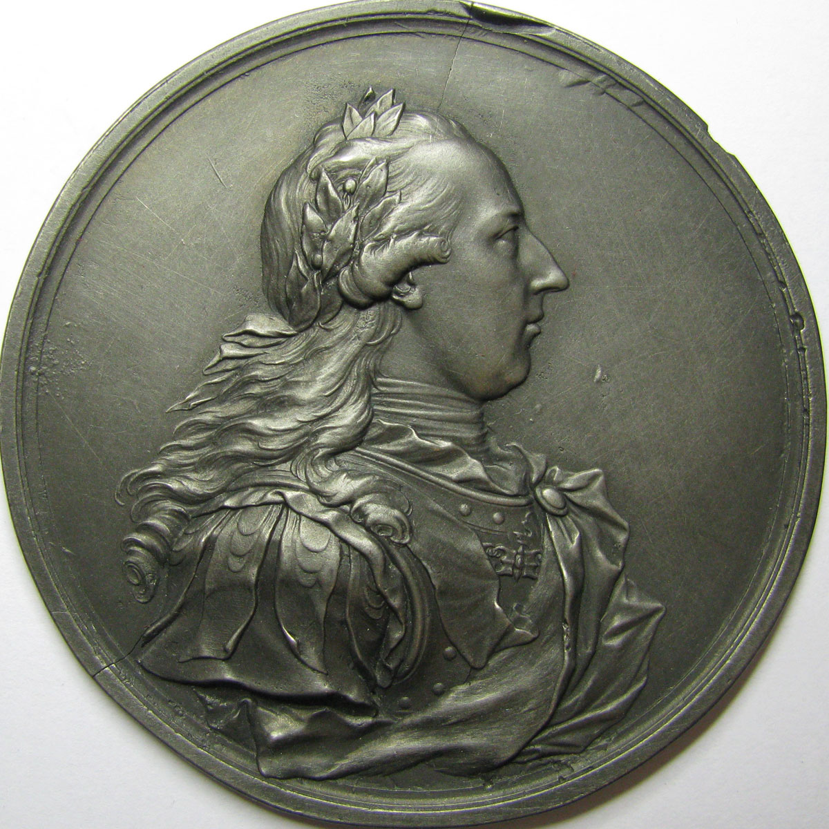 Portrait of Emperor Joseph II on an unfinished Medal by Theodore van Berckel ( pre 1790).